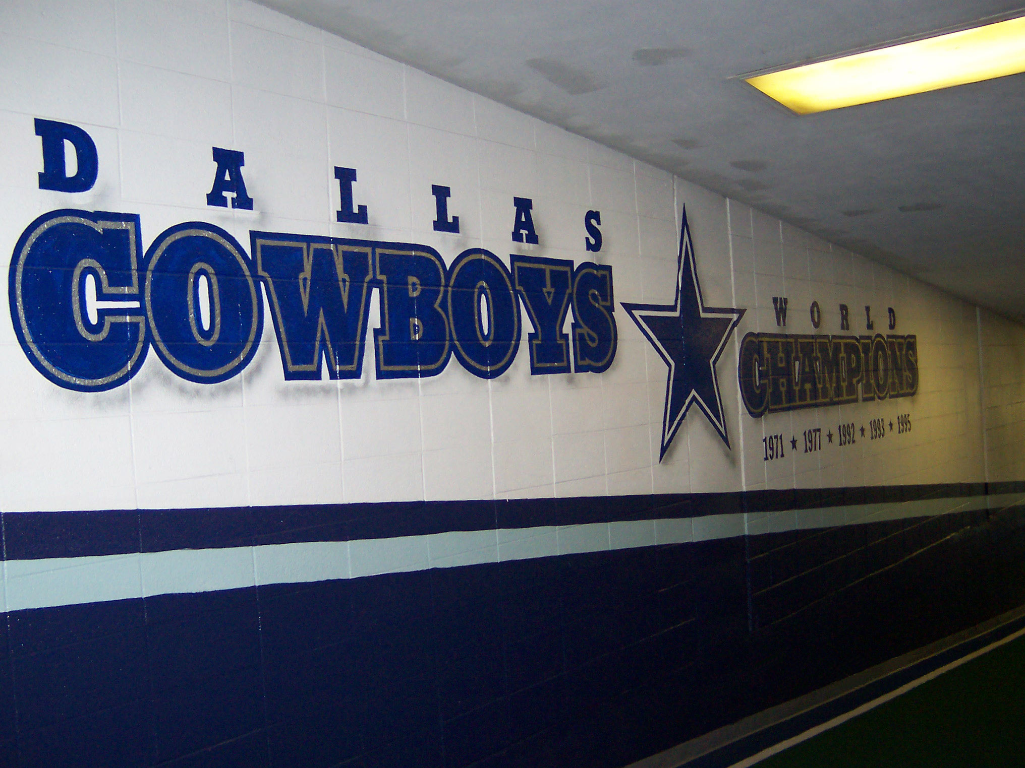 Texas Stadium - Dallas Cowboys World Champions Mural